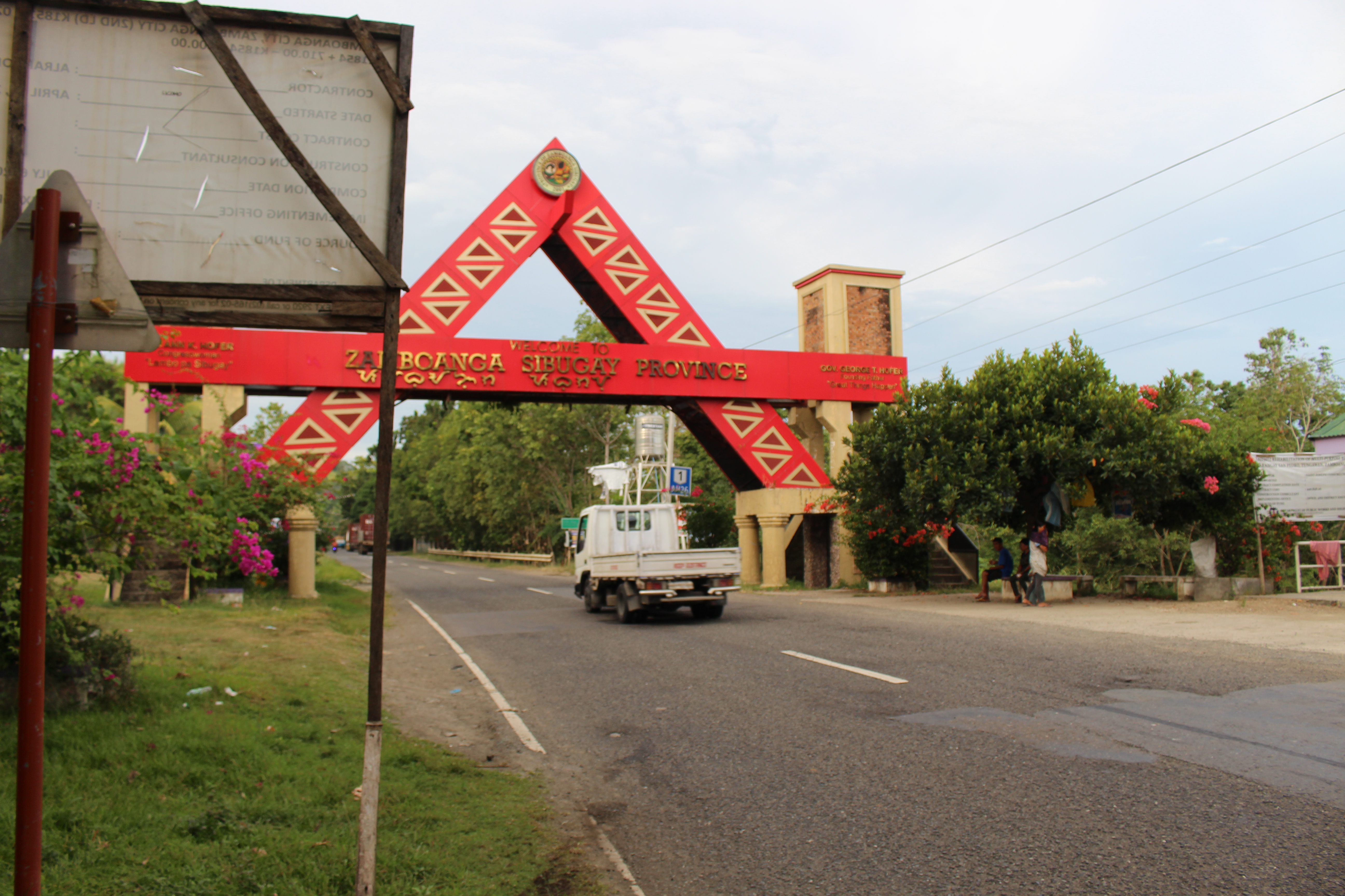 The gateway sign of Zamboanga Sibugay along the MCLL Highway at Barangay Licomo, Zamboanga City.